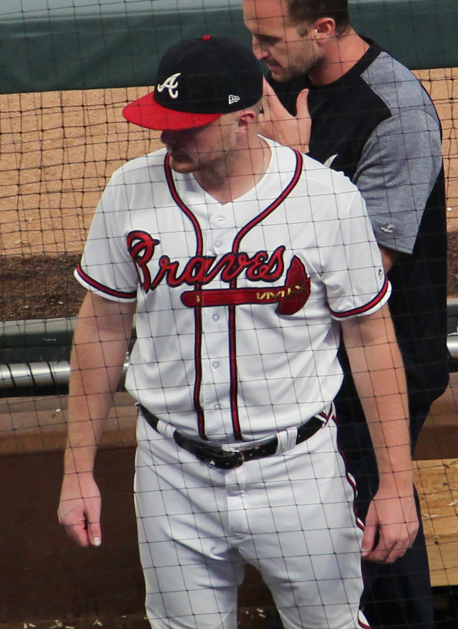 Atl Braves players during anthem